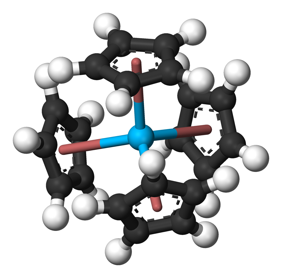 Tetrakis(cyclopentadienyl)thorium(IV) 3D balls